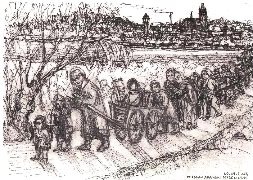 Expellees from Szczecinek in 1944